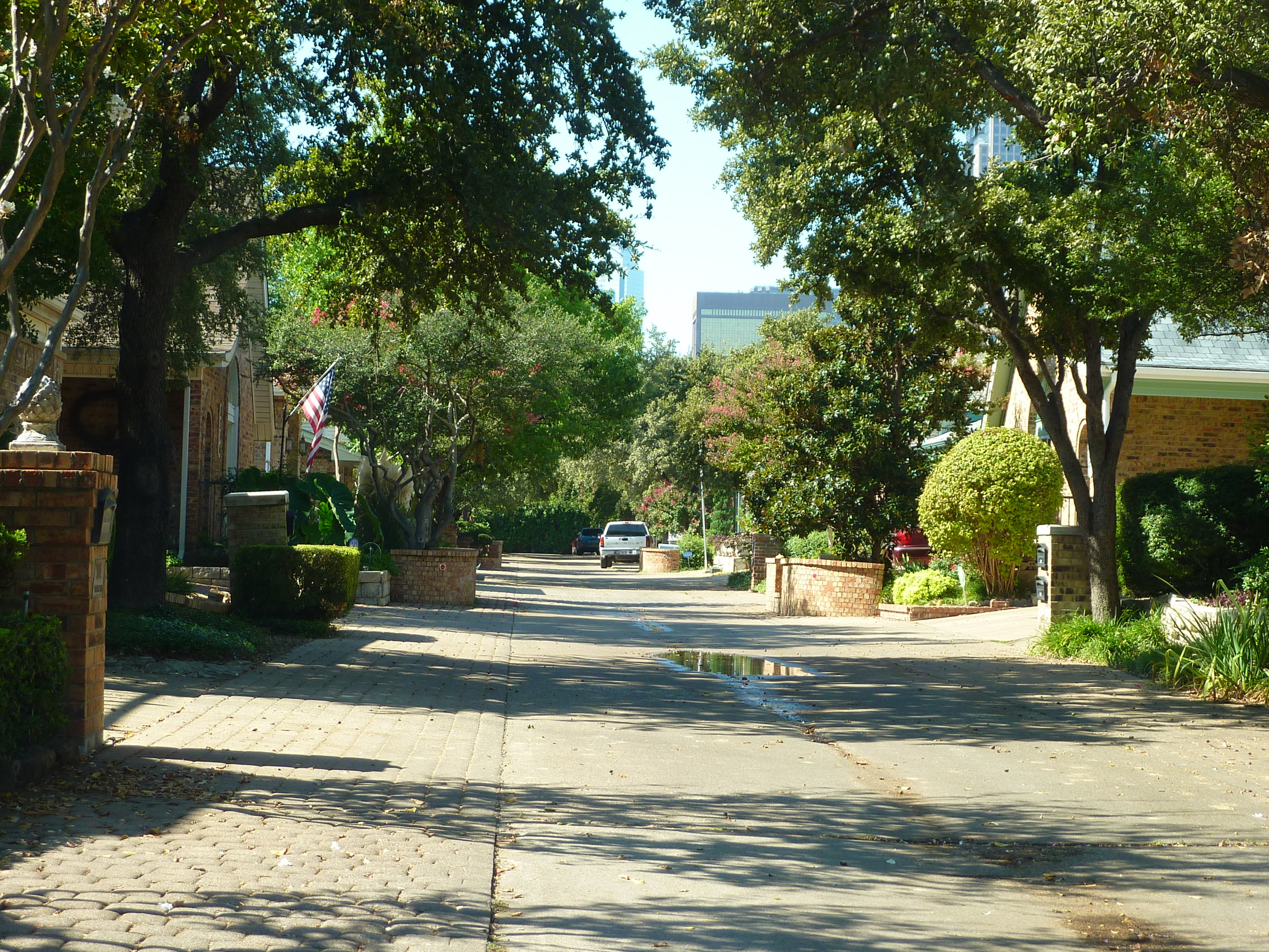 Typical residential street looking south towards downtown Dallas